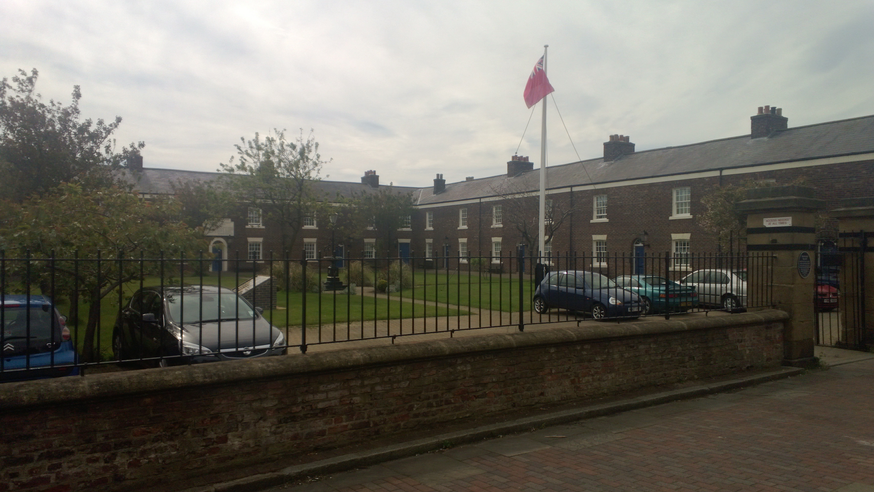 Merchant Seamen's Almshouses, 1840, architect: Wm Drysdale.